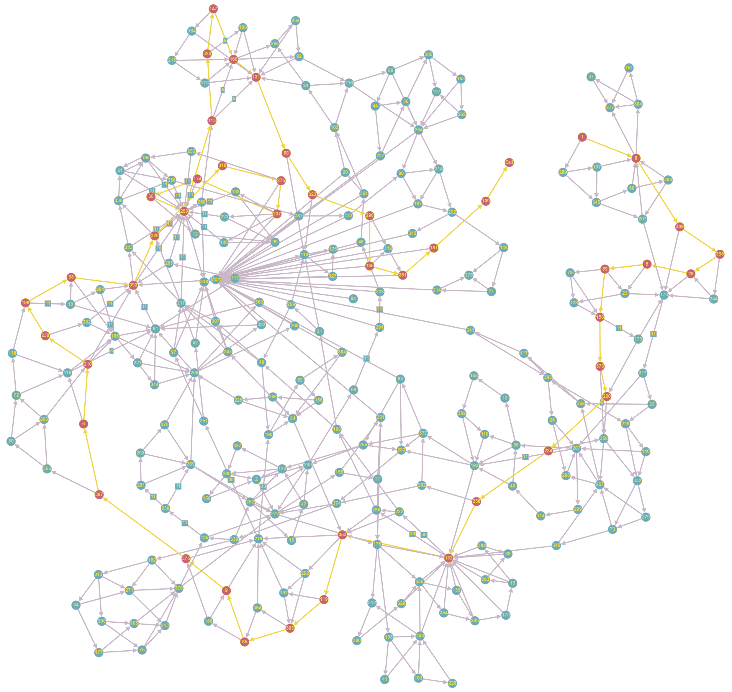 Graph of the gamebook from Steve Jackson (GB) House of Hell, Puffin (1984)/House of Hades, Dell (1985), with an example of a path leading to the solution.